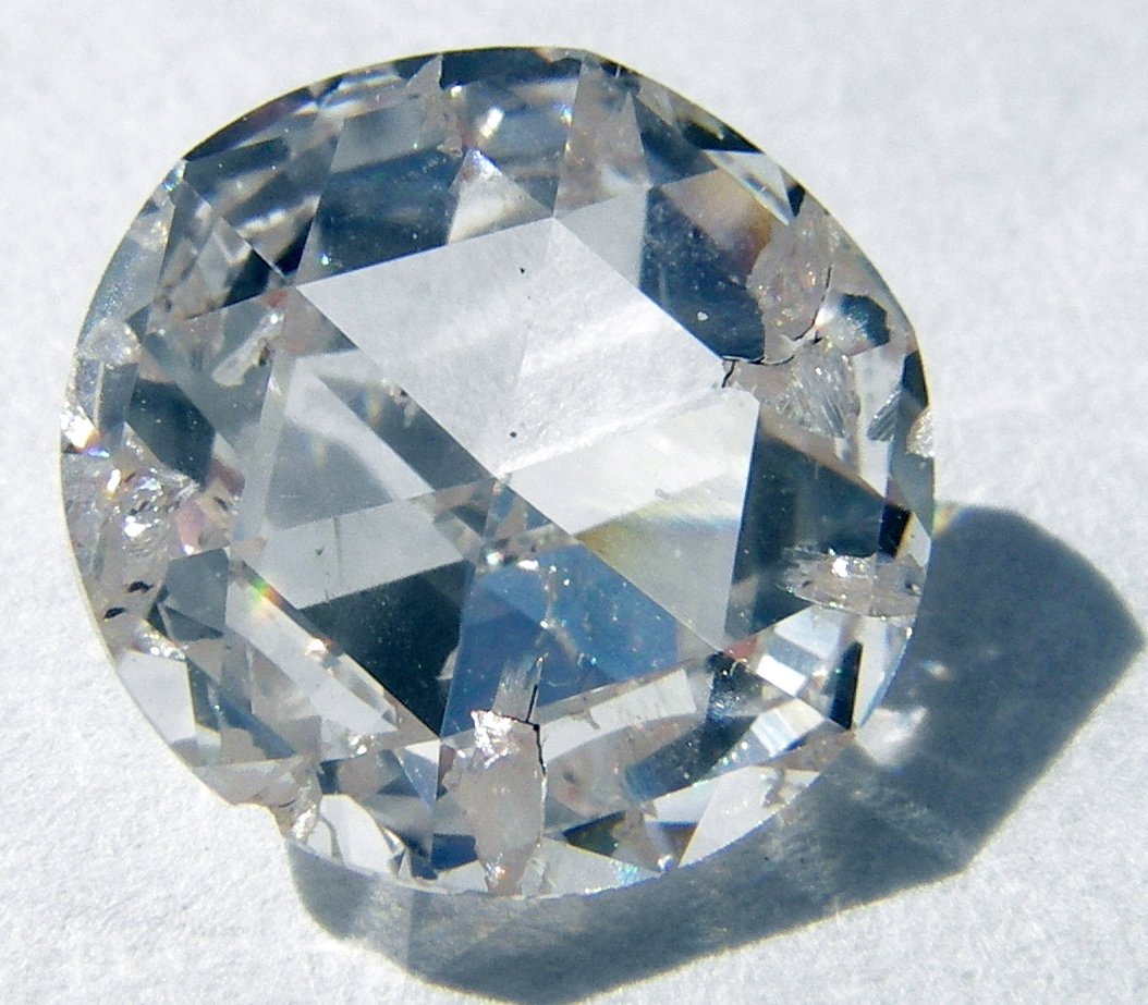 A rose-cut synthetic diamond created by Apollo Diamond using a patented chemical vapour deposition process.